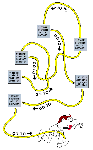 It shows the attitude of the so-called "Spagetti code"